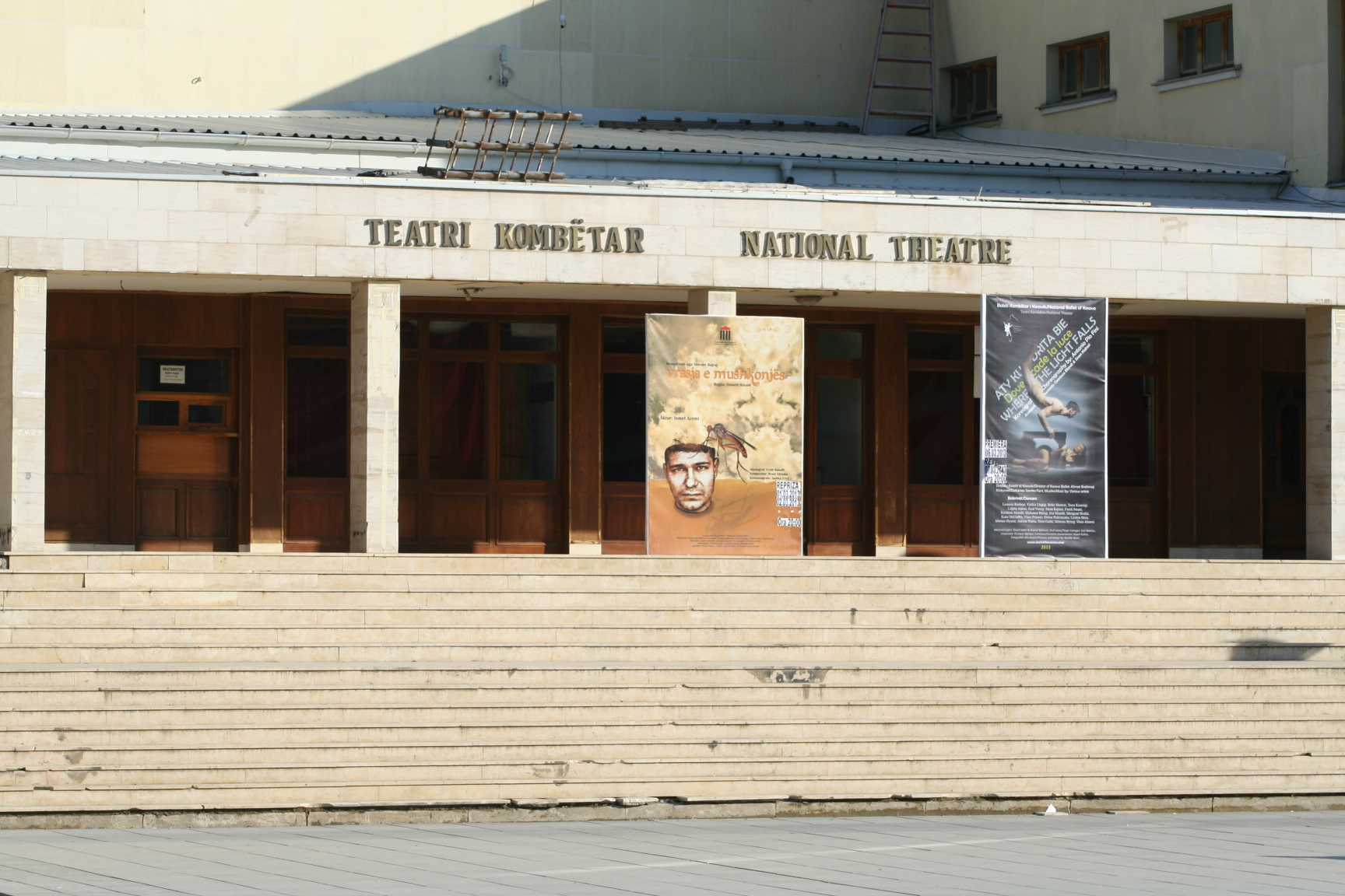 Theatre of Kosovo is based mostly on Albanian folk tradition. National Theater of Kosovo is based in Pristina, while every city has its own theater.